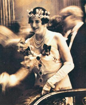 Lady Edith Londonderry with Ramsay MacDonald in the early thirties